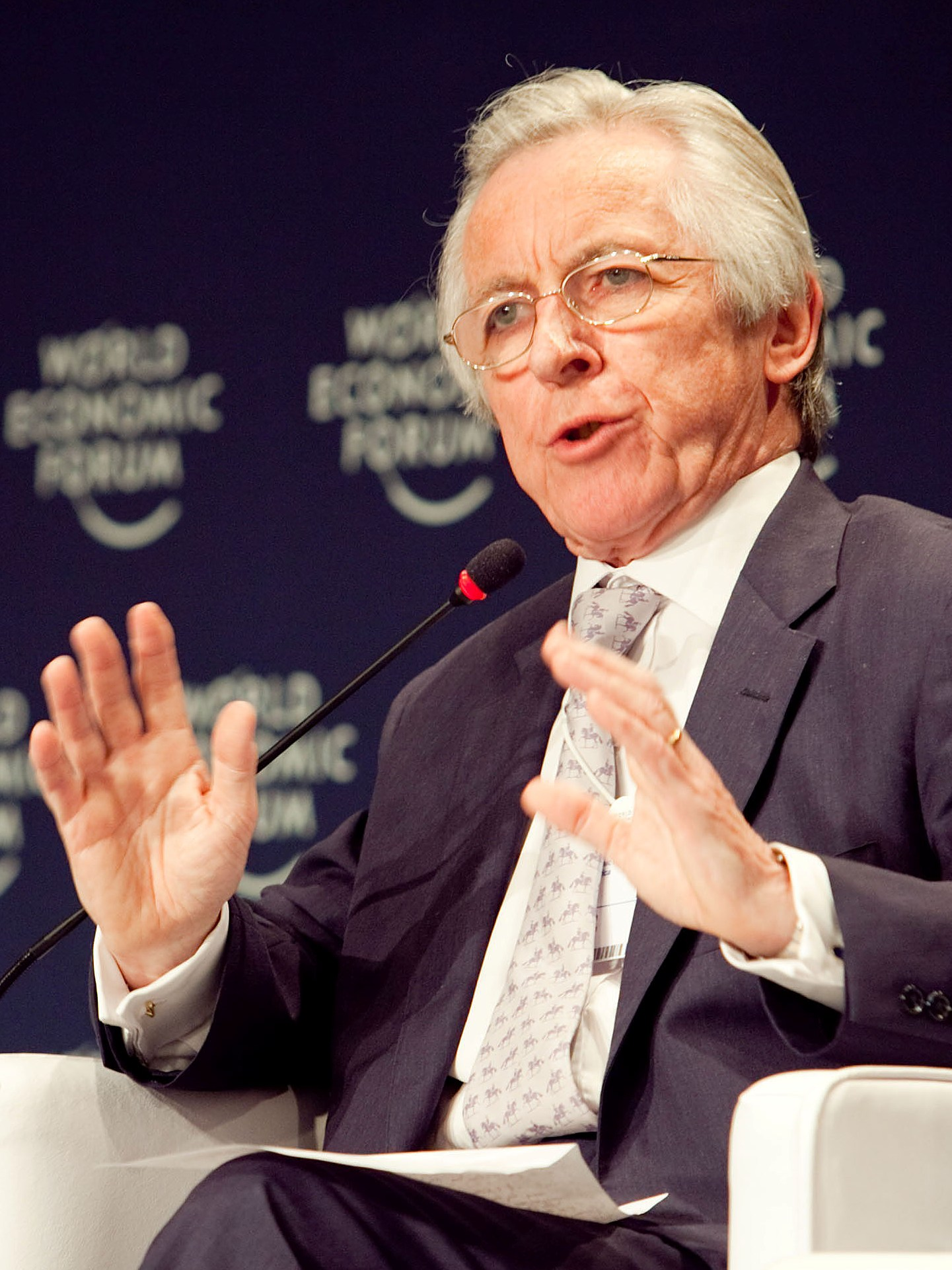 Daniel Brennan, Baron Brennan, British barrister, speaking at the World Economic Forum on Latin America 2009 in Rio de Janeiro, Brazil.